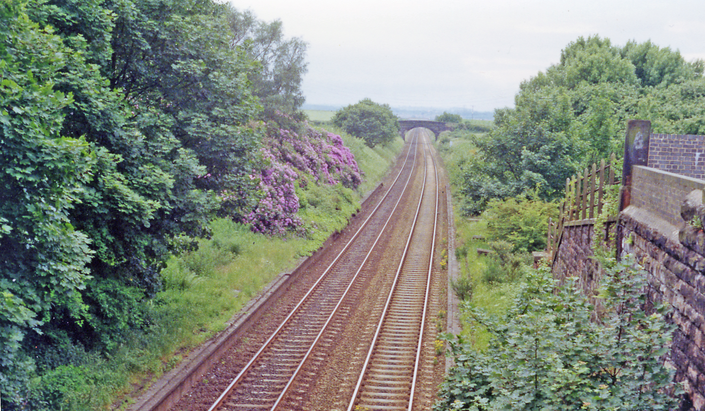 Site of Daresbury station, 1994. View SW from the A508 bridge, towards Frodsham and Chester: ex-Birkenhead Joint (GWR & LNWR) Chester - Warrington - (Manchester) main line. The station was closed 7/7/52, but the line is very much still open. Note the rhododendrons.